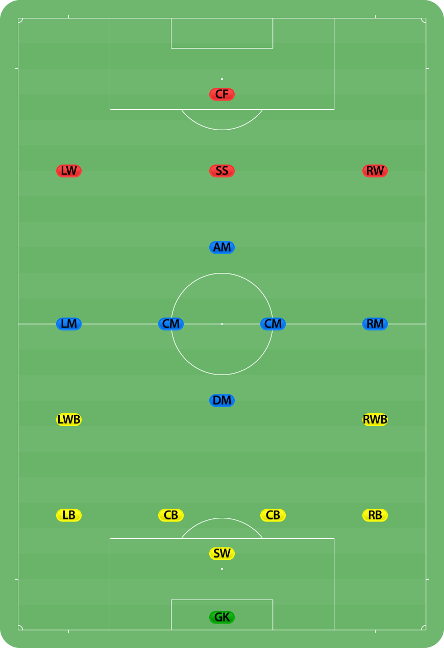 Image of the more common football positions. Remake of File:396px-Boisko Positions.PNG